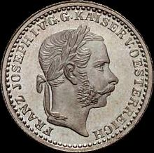 10 Kreuzer österreichischer Währung (1867, Vienna), obverse